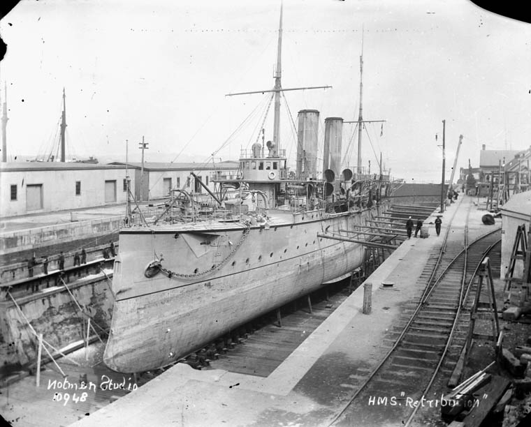 Photograph of British Apollo class cruiser HMS Retribution in drydock. Photograph taken while Retribution was with the North America and West Indies Squadron. Believed to be at Halifax, Nova Scotia, Canada.